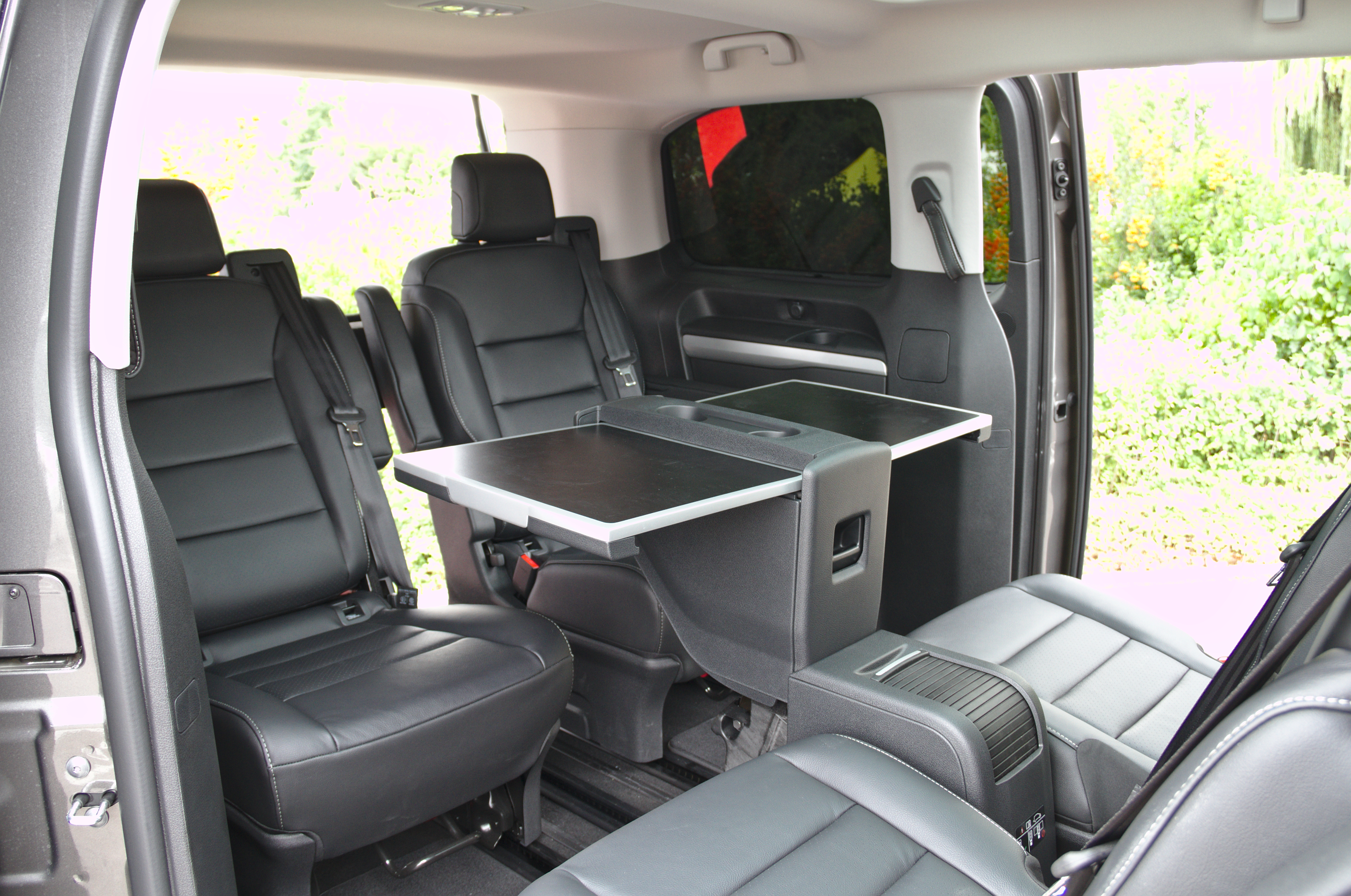 Opel Zafira Life M at Leonberger Autoschau 2019